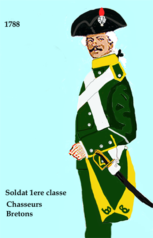 Uniforms of the french rifles of foot in 1788